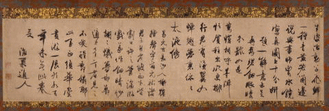 gabatsu (画跋). Afterword composed on a painting "Flowers and Insects" by Yi Yuanji. One hanging scroll, ink on paper, 30.0 × 118.4 cm (11.8 × 46.6 in). Located at Tokiwayama Bunko (常盤山文庫?), Kamakura, Kanagawa, Japan.